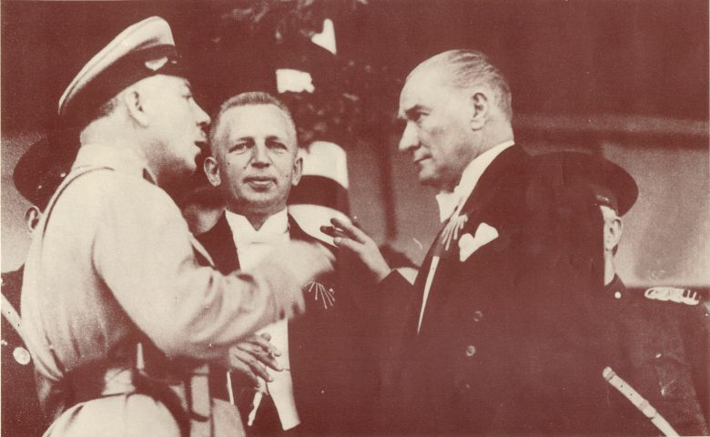 Kliment Voroshilov, Andrei Bubnov and Gazi Mustafa Kemal during the celebration of the Republic Day (the 10th anniversary of the Republic of Turkey).